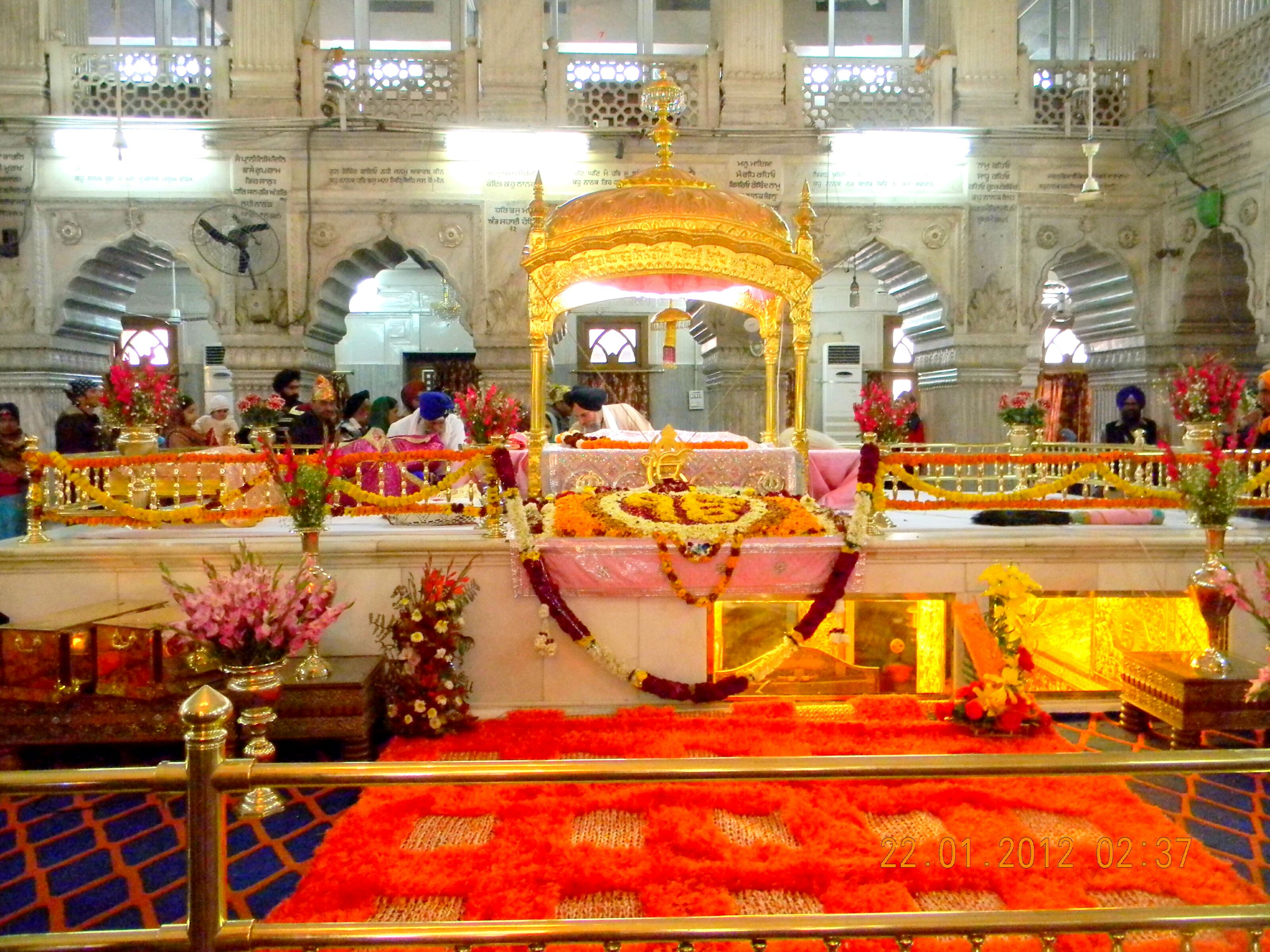 Interior view Gurudwara Sis Ganj Sahib Night View